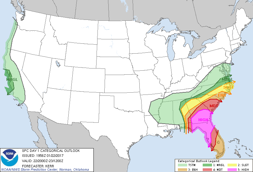 Storm Prediction Center 20z update featuring a High risk across much of northern Florida and southern Georgia.